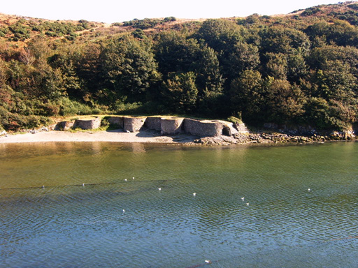 Disused kilns in Solfach (Solva), Wales